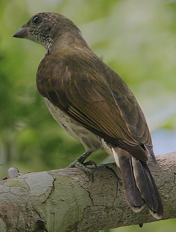 Dorsal view of a perched bird taken in Arabuko-Sokoke Forest.